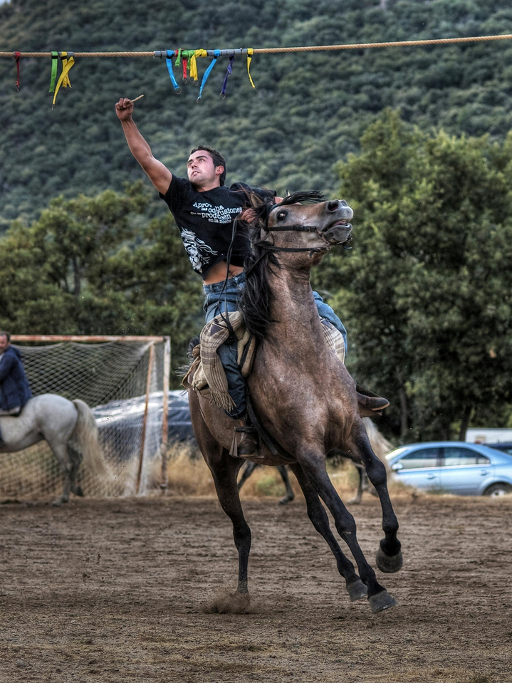 Carreras de cintas